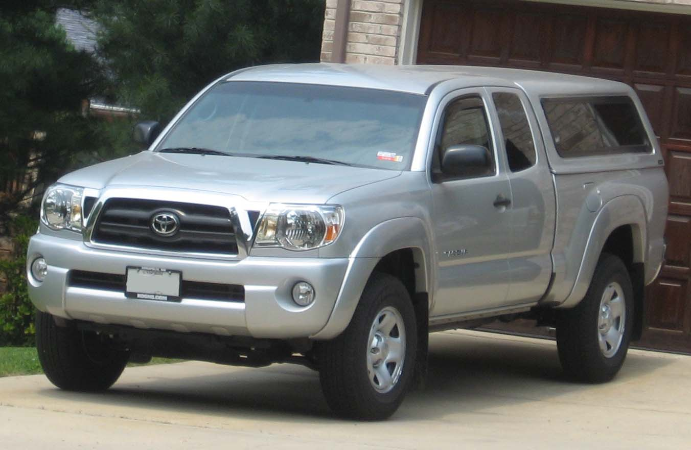 2005-2007 Toyota Tacoma photographed in USA.